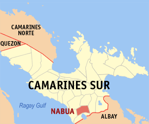 Map of Camarines Sur showing the location of Nabua